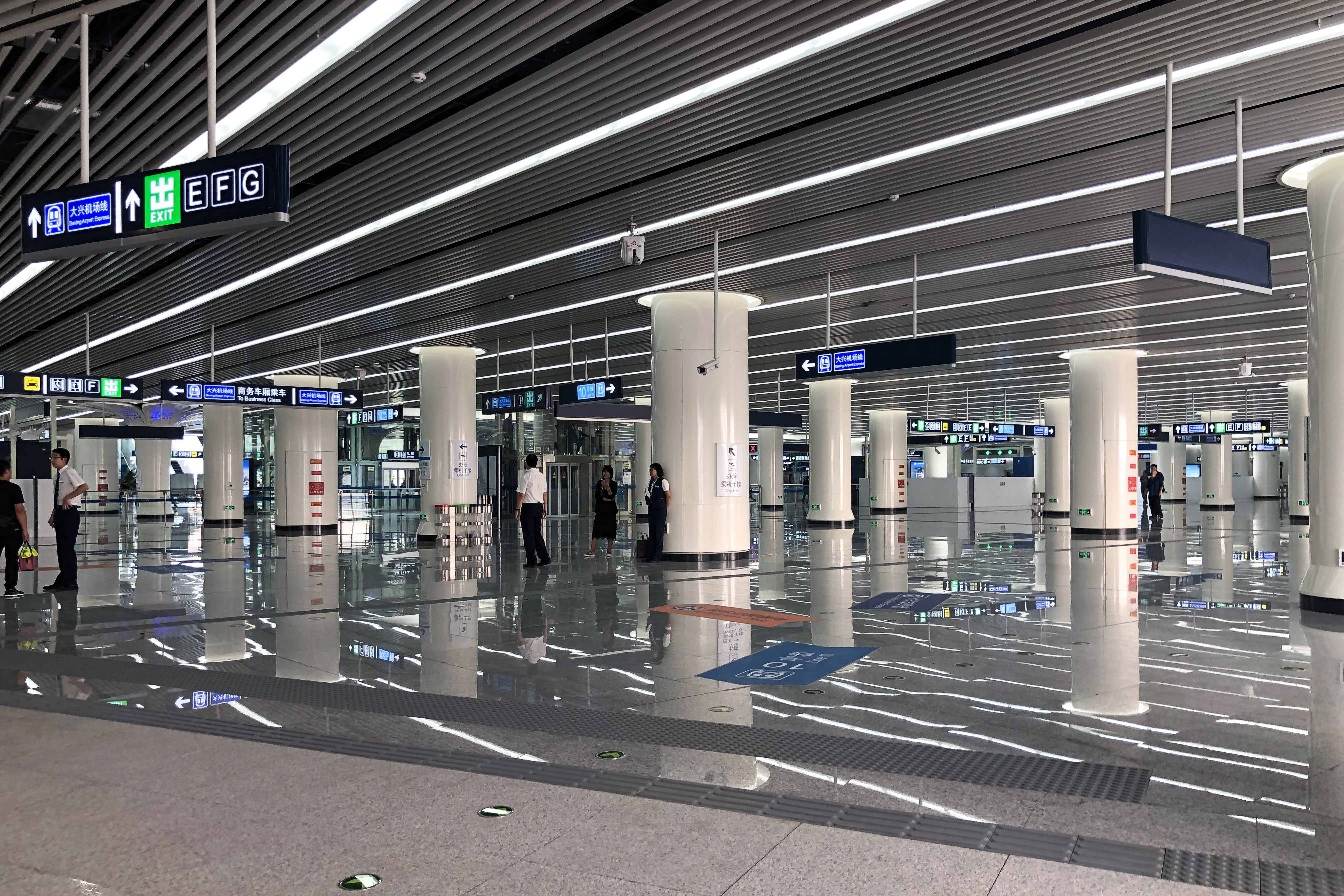 Really large... maybe because of Line 19.